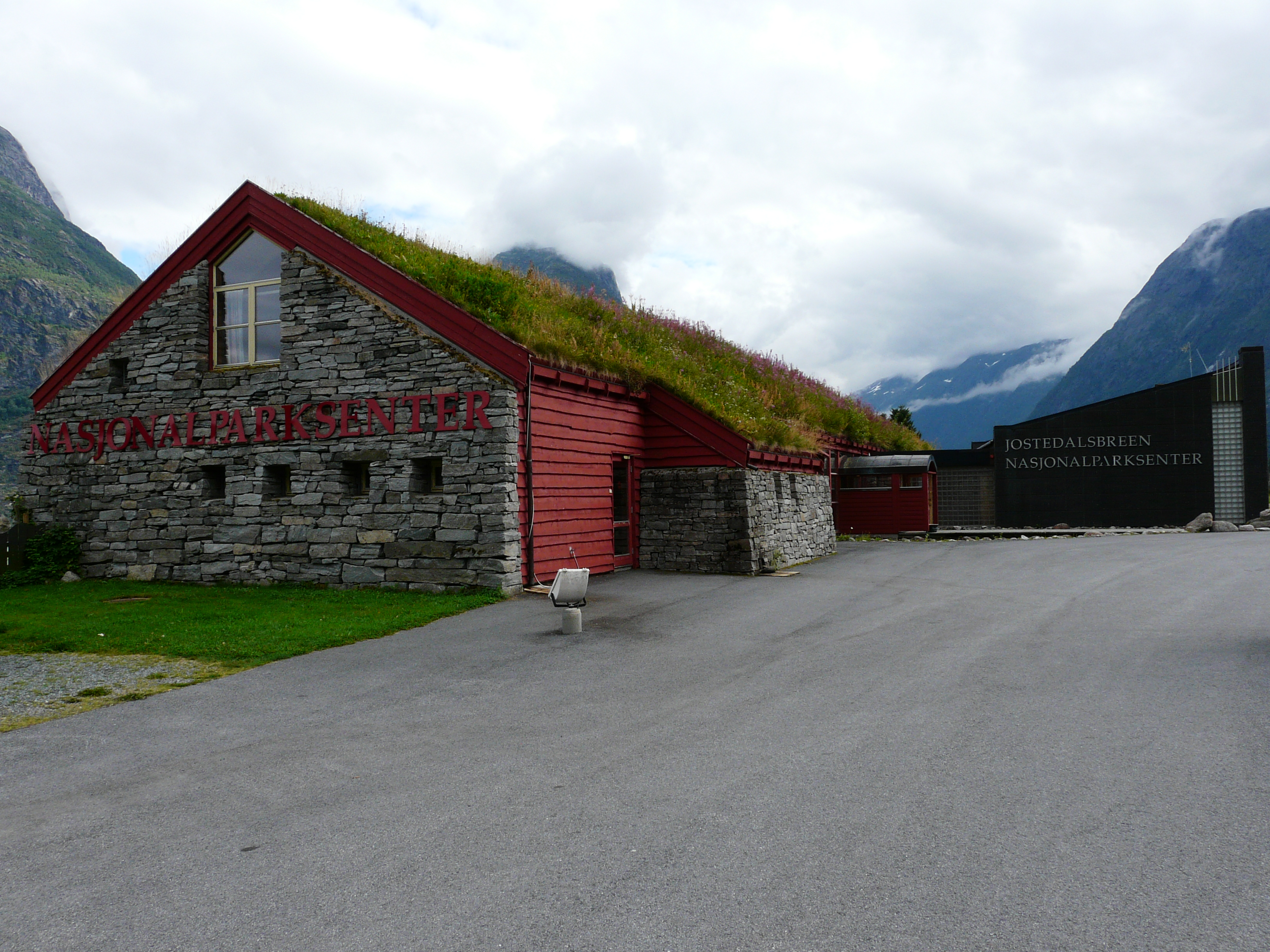 Jostedalsbreen Nasjonalparksenter